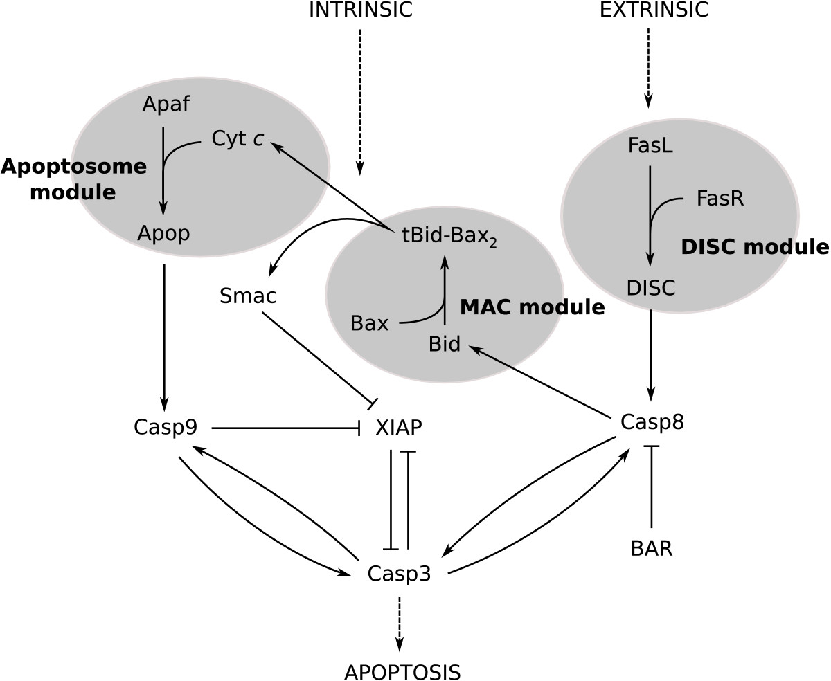 Figure 1. Extrinsic and intrinsic pathways to caspase-3 activation. Overview of pathways to caspase-3 activation. Each separate gray region represent the three modules: DISC (death-inducing signaling complex), MAC (mitochondrial apoptosis-induced channel) and apoptosome. Species and their symbols are: FasL (FasL), FasR (FasR), DISC (DISC), procaspase-8 and caspase-8 (Casp8), bifunctional apoptosis inhibitor (BAR), procaspase-3 and caspase-3 (Casp3), XIAP (XIAP), Bid and truncated Bid (Bid), Bax (Bax), tBid - Bax2 complex (tBid - Bax2), Smac (Smac), Apaf-1 (Apaf), cytochrome c (Cytc), apoptosome (Apop), procaspase-9 and caspase-9 (Casp9). Arrows denote chemical conversions or catalyzed reactions while hammerheads represent inhibition.